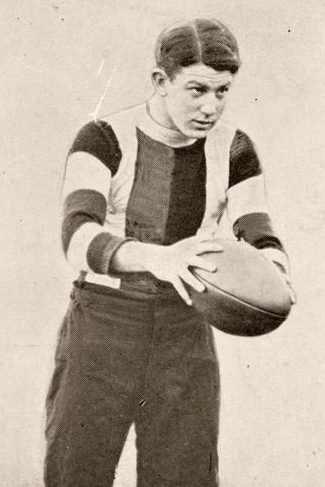 Photograph of Wally Gant from the 1910 Weekly Times Victorian Footballer Postcard Series